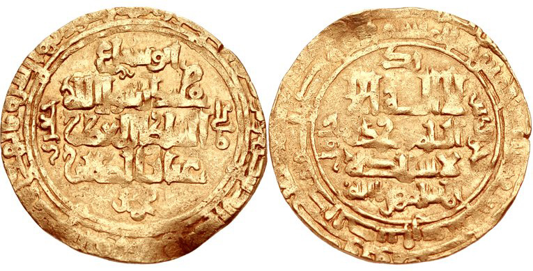 Coin of Muhammad I, an Seljuq Sultan.